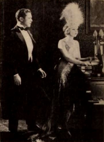 Still from the American drama film Who Am I? (1921) with Niles Welch and Claire Anderson, on page 48 of the October 16, 1920 Exhibitors Herald.